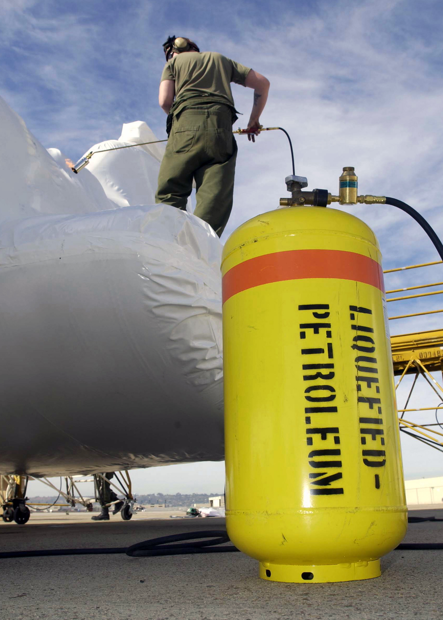 Naval Air Station North Island, Calif. (Jan. 15, 2003) – Sgt. Peter Dimartino from Marine Medium Helicopter Squadron Three Six Four (HMM-364) applies "shrink wrap" to one of the squadrons CH-46E "Sea Knights." Squadron helicopters are being prepared for shipment via the Military Sealift Command (MSC) to an undisclosed destination. The sealing process helps prevent corrosion during periods in saltwater environments. U.S. Navy photo by Photographer’s Mate Airman Andrew Betting. (RELEASED)